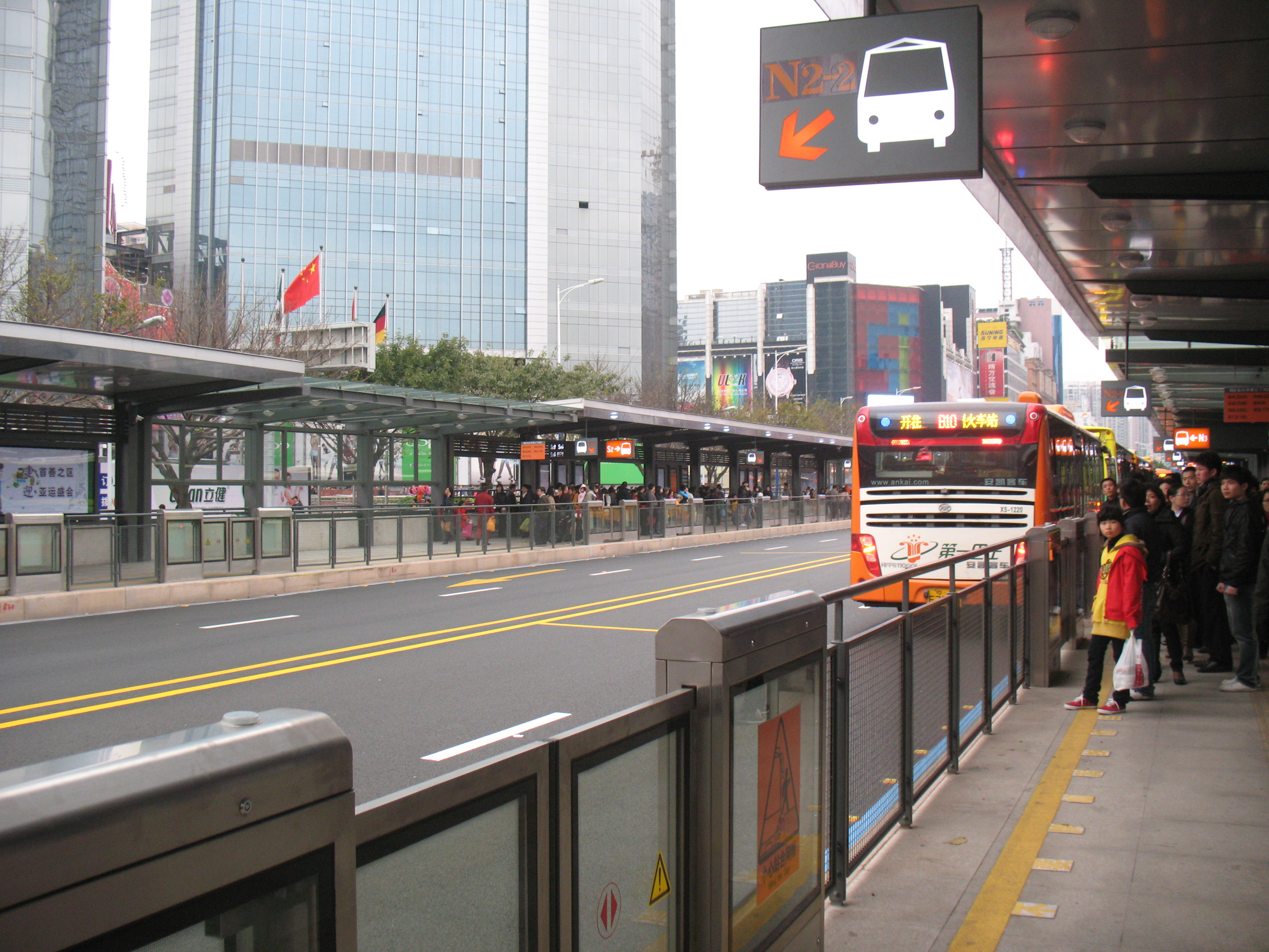 Guangzhou GBRT Tianhe Sports Center Station 中文（香港）: 廣州快速公交體育中心站